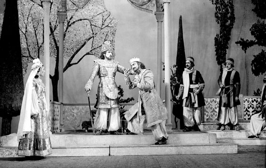 Scene from Farhad and Shirin by Samed Vurgun. Azerbaijan State Dram Thetaer. Rej. Adil Iskenderov. Art. Nusrat Fatullayev.